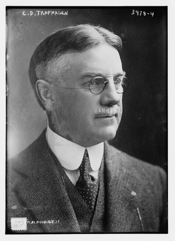 Charles Duryee Traphagen (1862-1947) portrait circa 1915